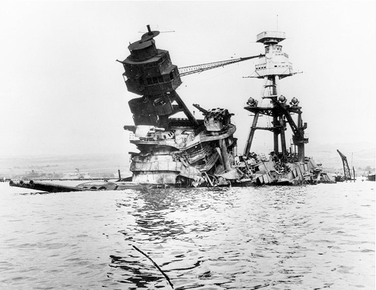 Removed caption read: Photo # USN 1021538 - Burned-out wreck of USS Arizona, at Pearl Harbour, December 1941